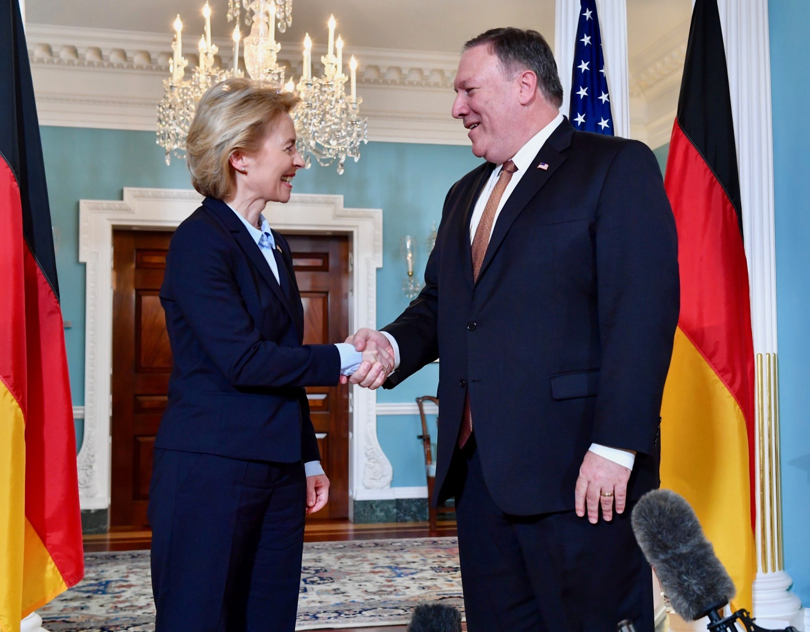 U.S. Secretary of State Mike Pompeo welcomes German Defense Minister Ursula von der Leyen to the U.S. Department of State in Washington, D.C., on June 20, 2018. [State Department photo/ Public Domain]